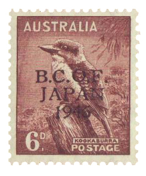 Postage stamp, Australia, 1937: Overprinted for use by British Commonwealth Occupational Force in Japan, 1946.